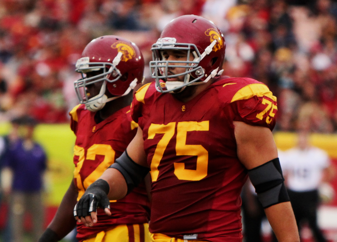 USC Trojans left tackle's Matt Kalil during the 2011 match against the Washington Huskies